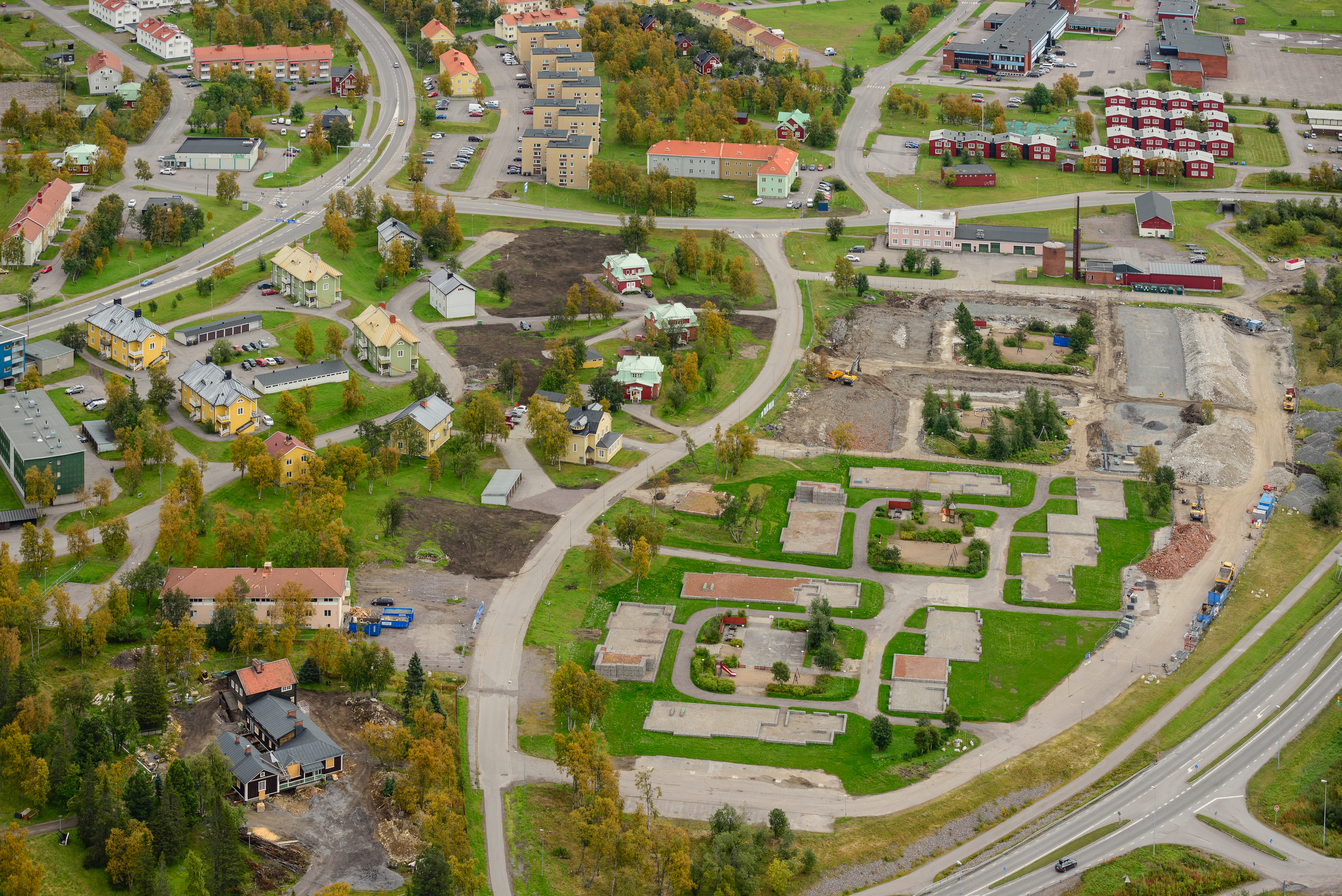 Gruvstadsparken (city mine park) under construction, Kiruna. The areas where houses are moved or demolished will be available to the public for a certain period of time. The areas will be transformed from current activity to park area and finally to industrial area.